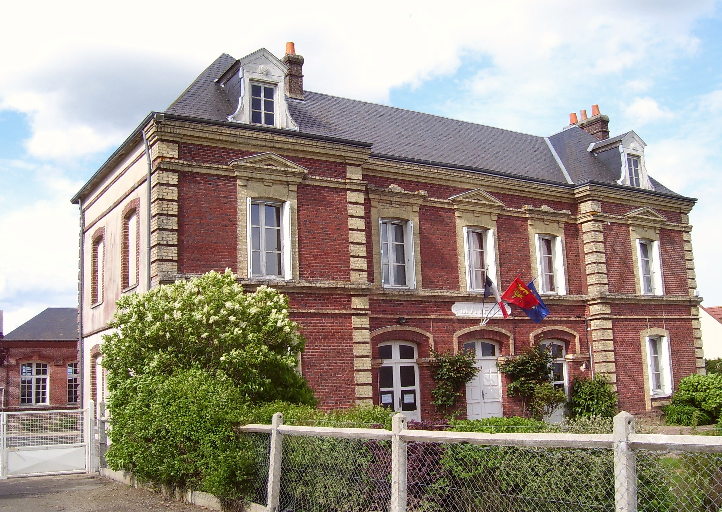 Town hall of Berthouville,in the Département Eure, France.